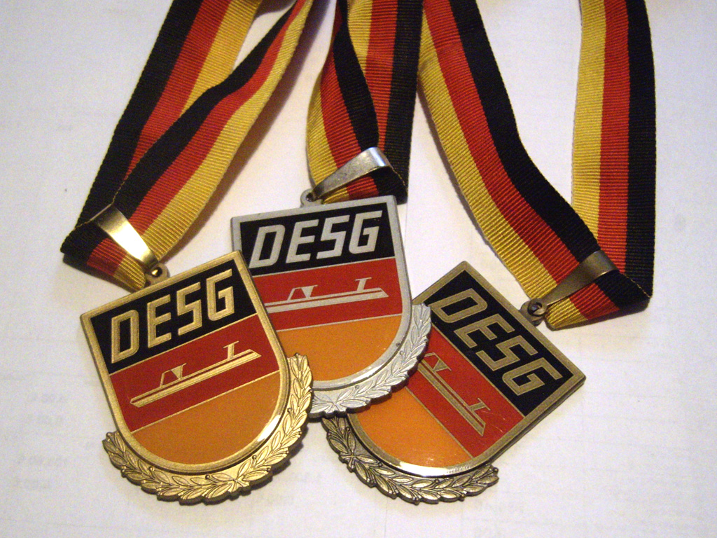 medal_set, German sports governing bodies, Deutsche Eisschnelllauf-Gemeinschaft (DESG) - gold, silver, bronze